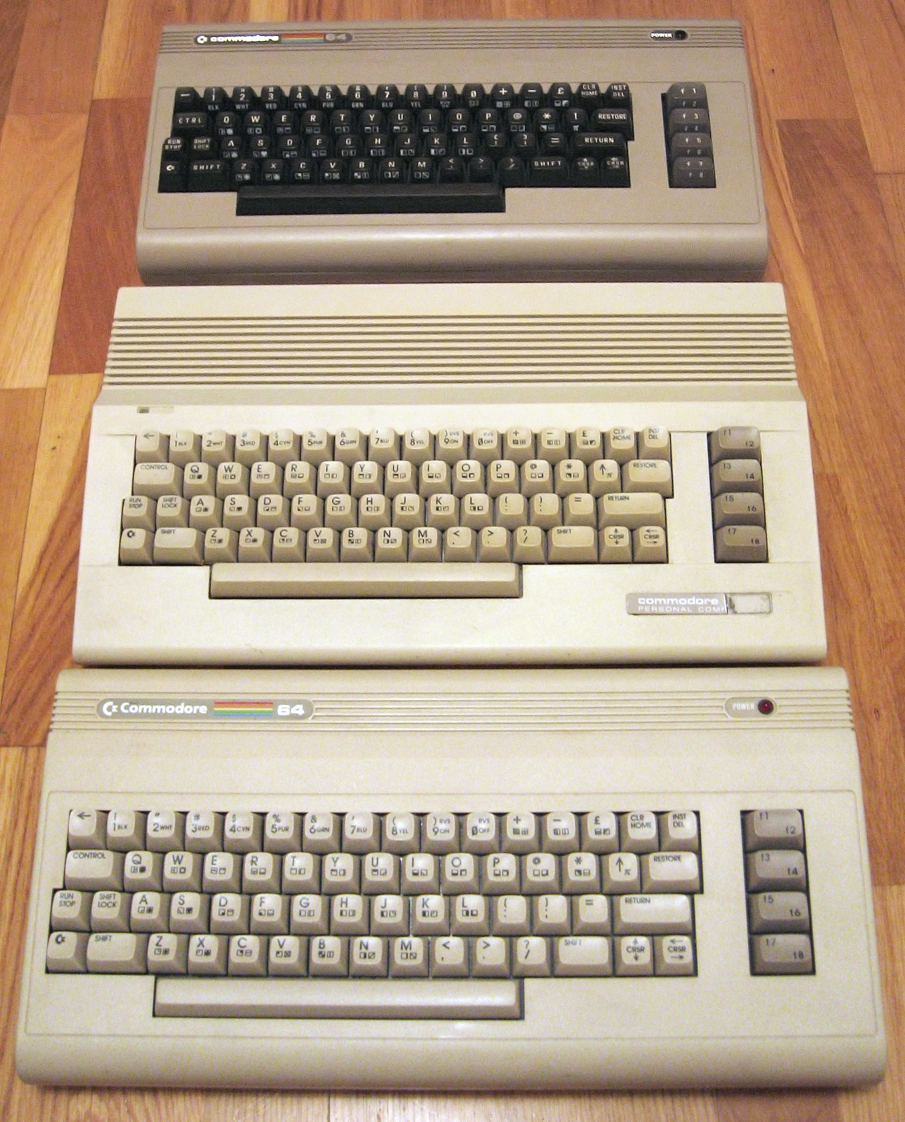 Three versions of the personal computer Commodore 64. The one on the top is a C64 (1982), then comes the C64C (1986) and then the C64G (1987).